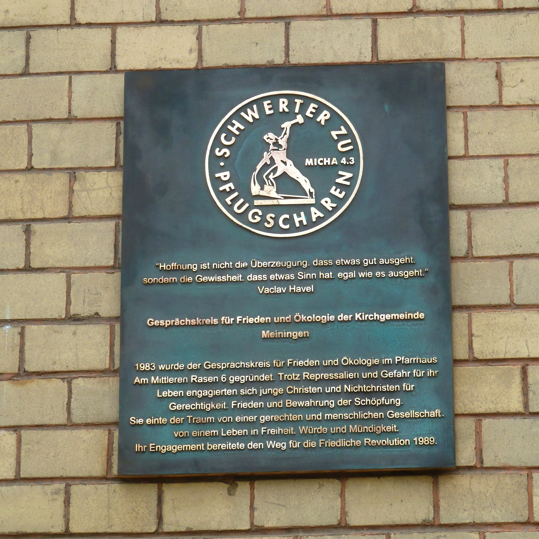 Plaque at the Evangelical parsonage in city Meiningen, founding place of the discussion group for peace and ecology, the pioneer of political change in city of Meiningen, Germany.